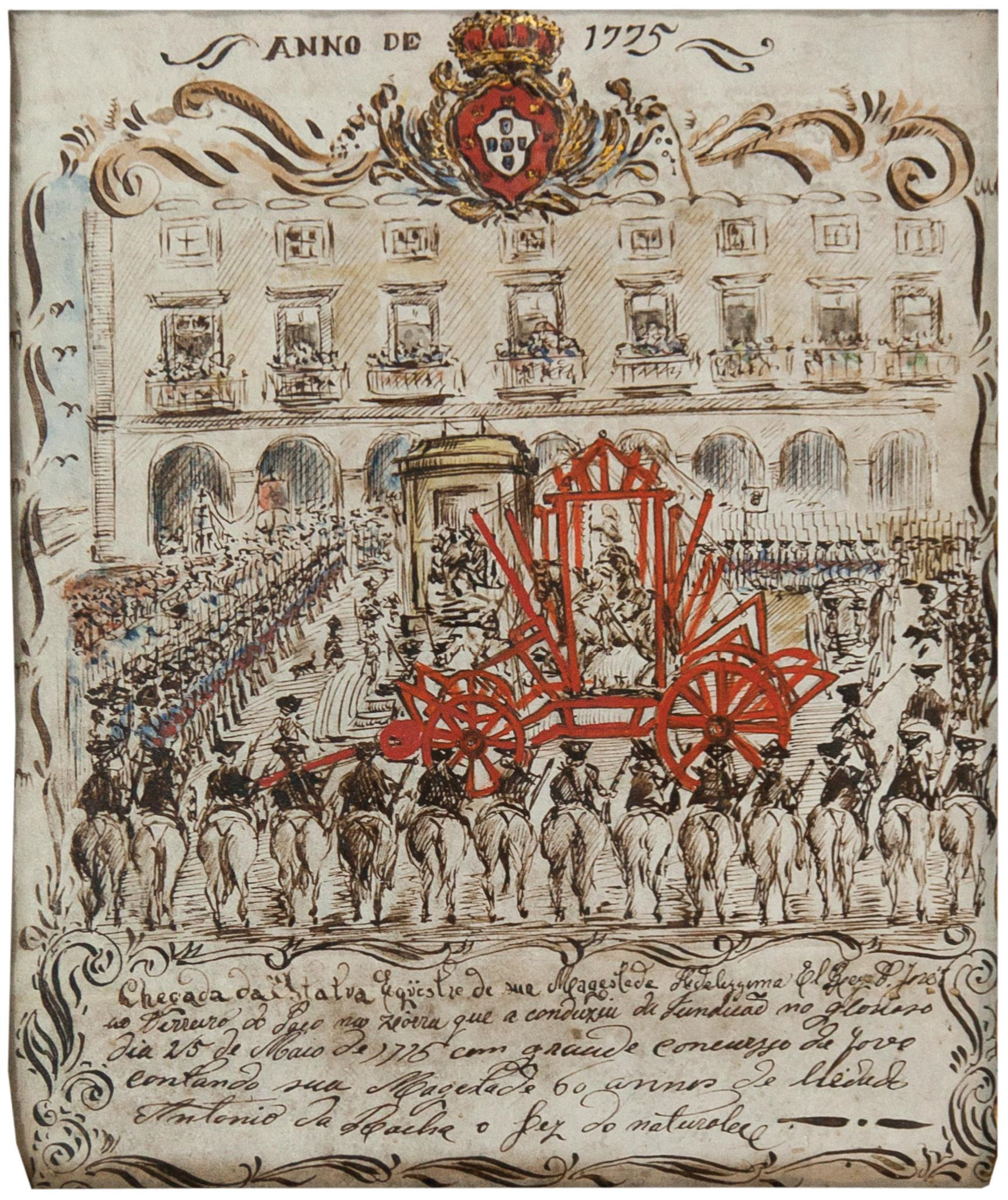 Arrival of the equestrian statue of His Most Faithful Majesty D. Joseph I to the Terreiro do Paço, in 1775.